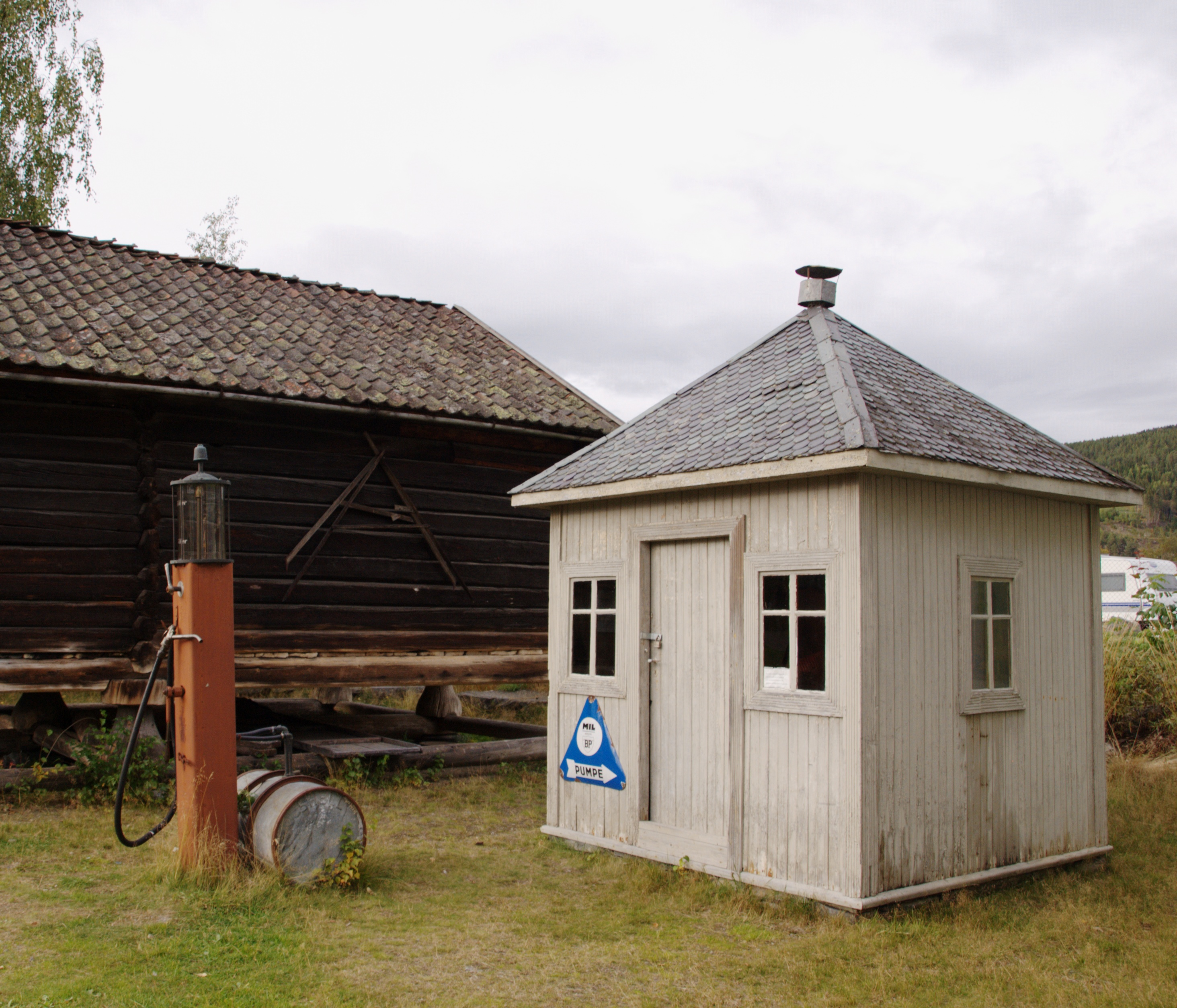 Bensinstasjon at Valdres Folkemuseum on Storøya outside Fagernes in Nord-Aurdal.